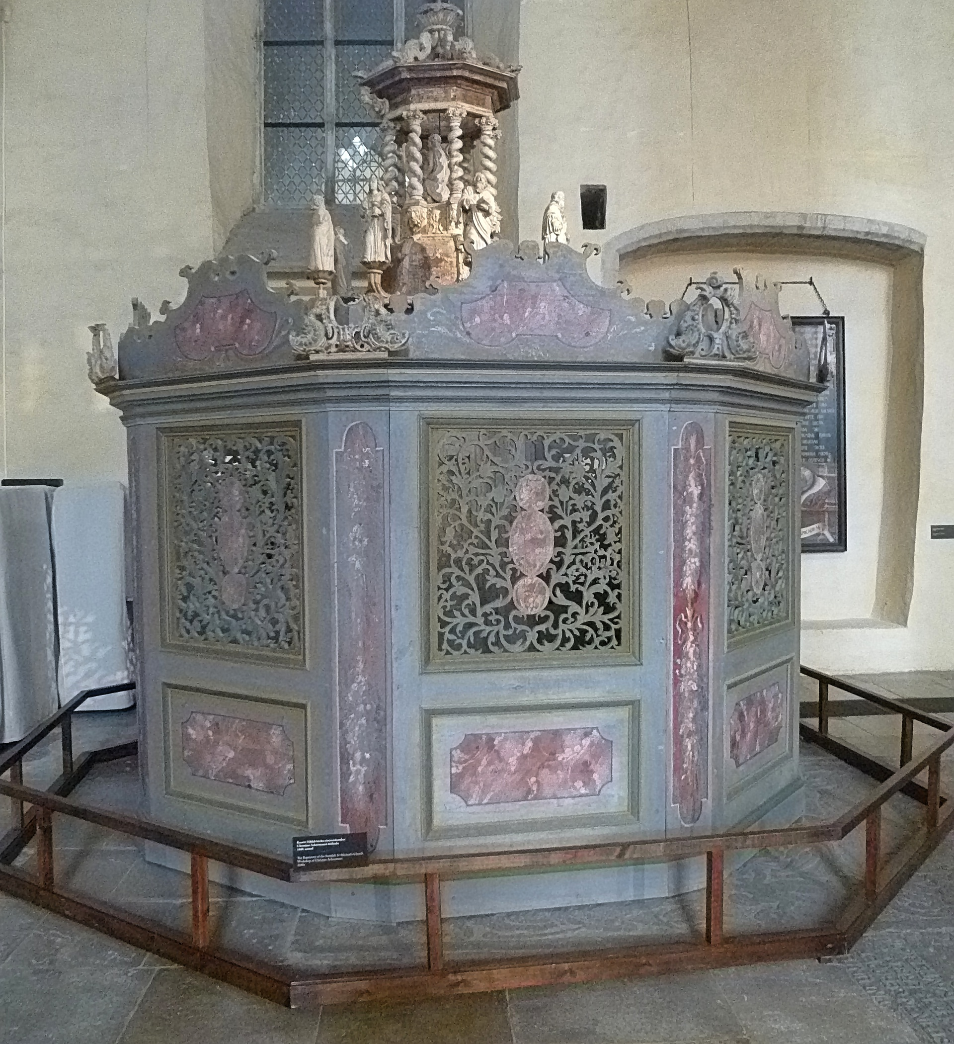 Baptistery of the Swedish St. Michael's Church; workshop of Christian Ackermann; Niguliste Museum, Tallinn, Estonia